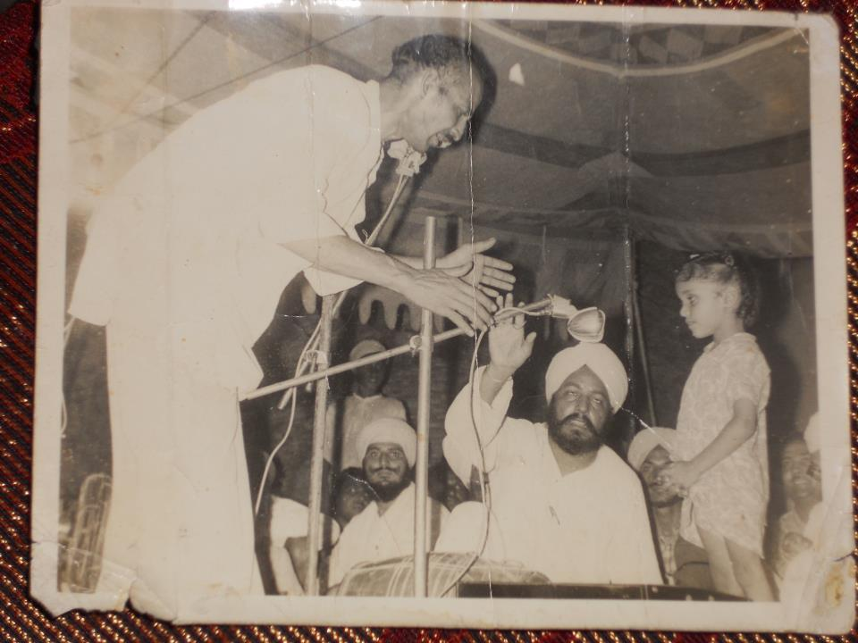 Kavinder Chaand ,Punjabi language poet,Punjab,India